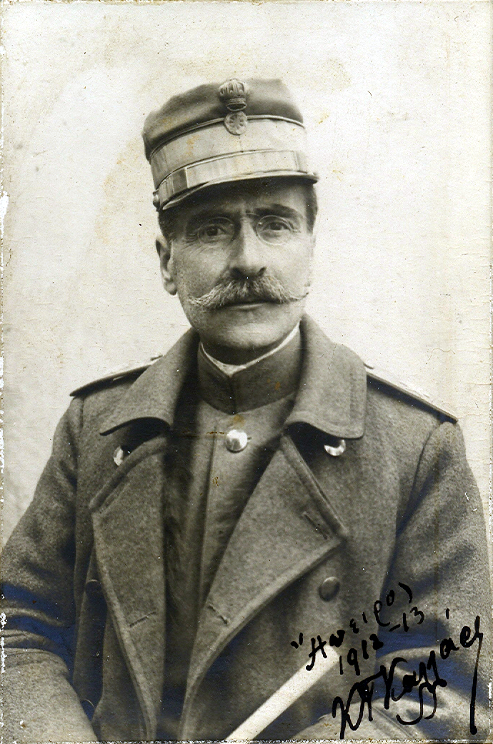 Signed photo of Greek general Konstantinos Kallaris at the time of the Balkan Wars.